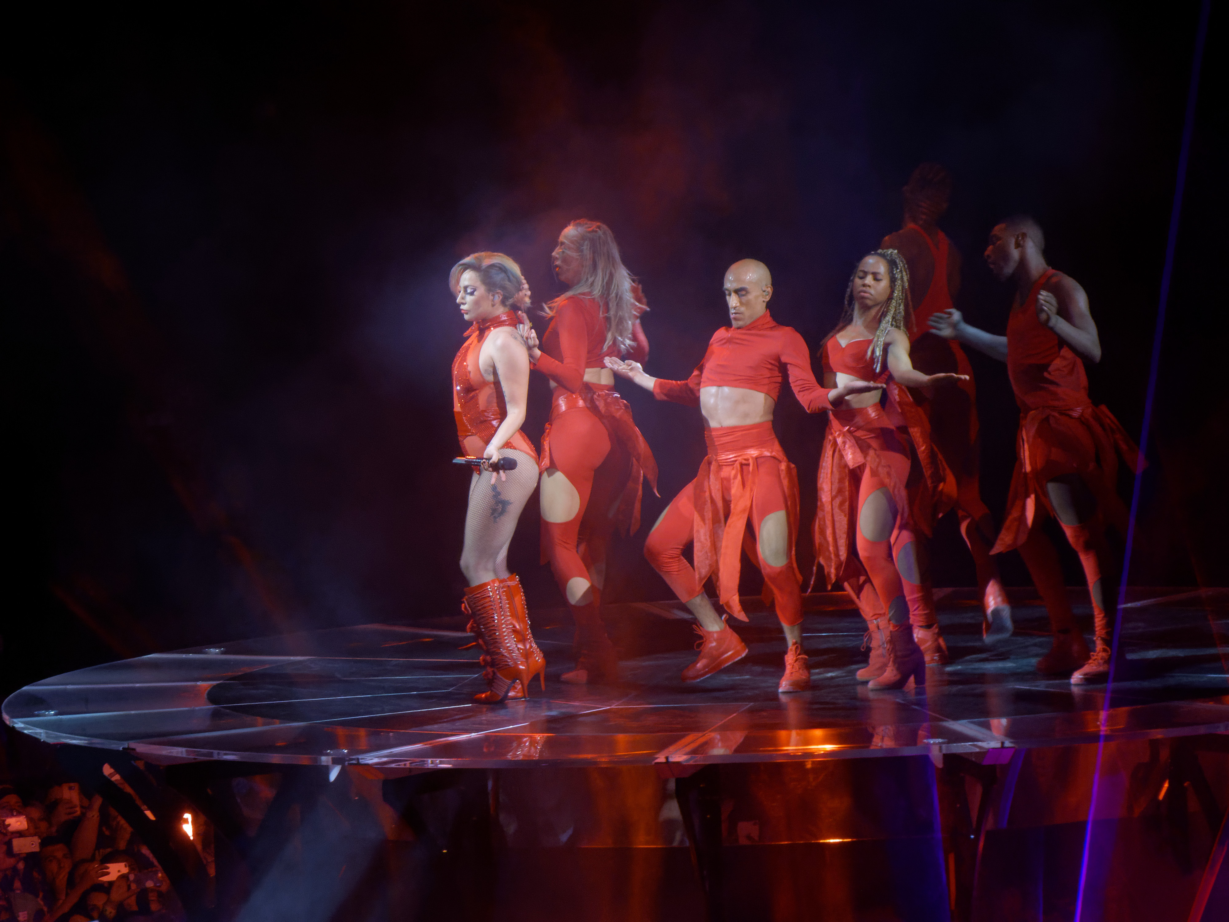 Lady Gaga performing "Dancin' in Circles" at Joanne World Tour in Tacoma